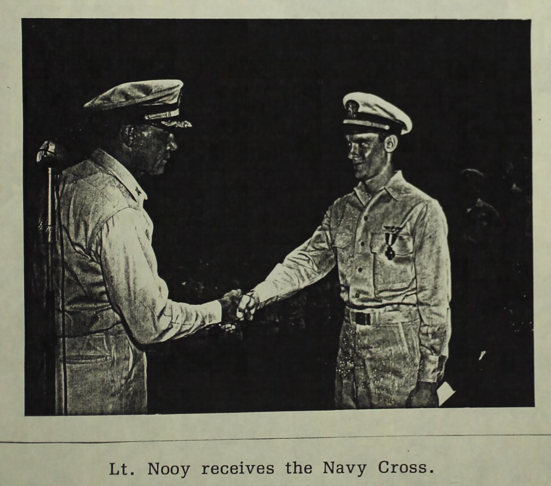 U.S. Navy pilot Cornelius Nicholas Nooy receiving the Navy Cross for action undertaken 4 July 1944 over the Bonins. it was awarded on 7 September 1944.